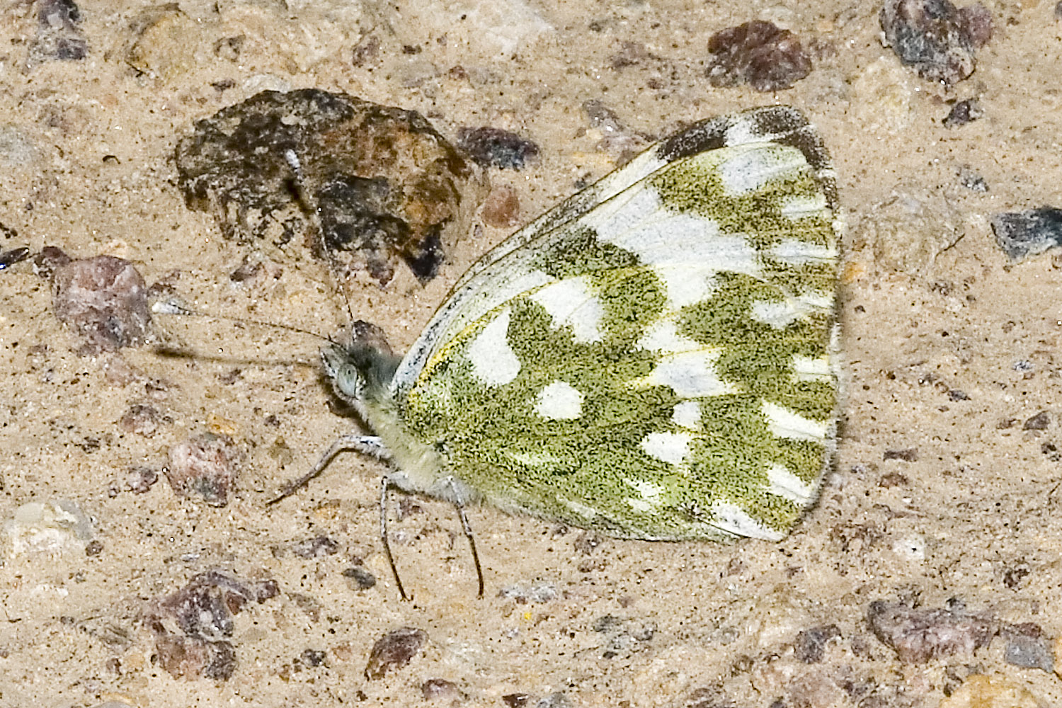 Bath White, Pontia edusa (Fabricius, 1777), Many thanks to Juergen Hensle ( for determination!